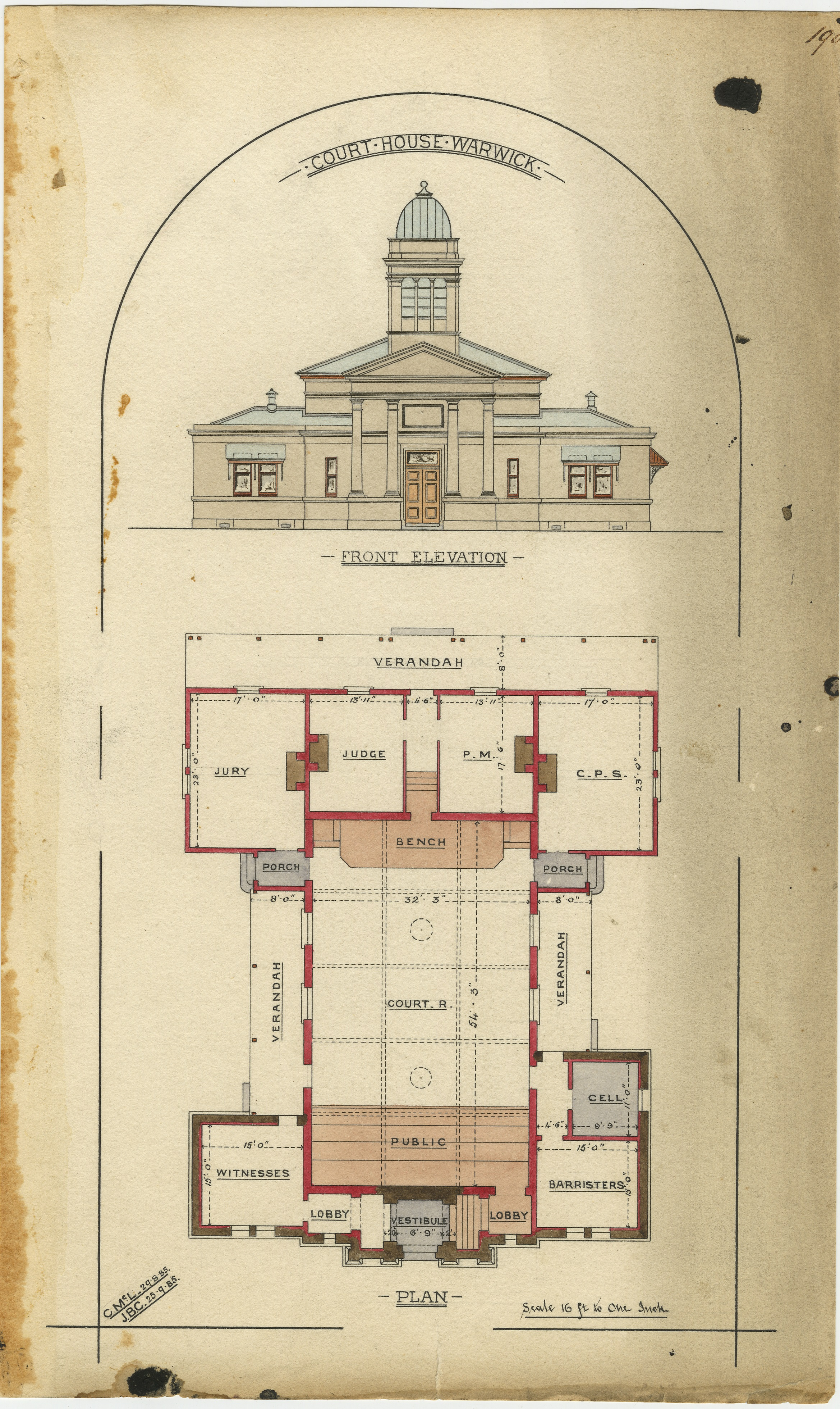 Architectural drawing of the Court House, Warwick, 29 August 1885